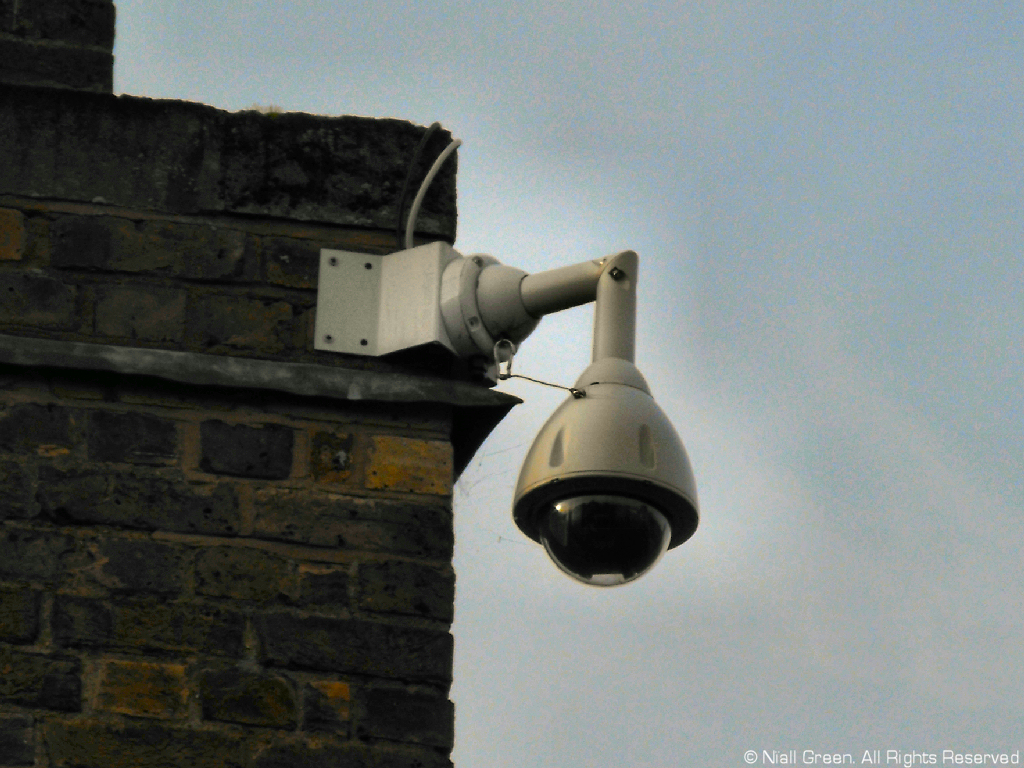 A photograph of the increasingly popular dome-type CCTV camera, shown here with external mounting hardware.